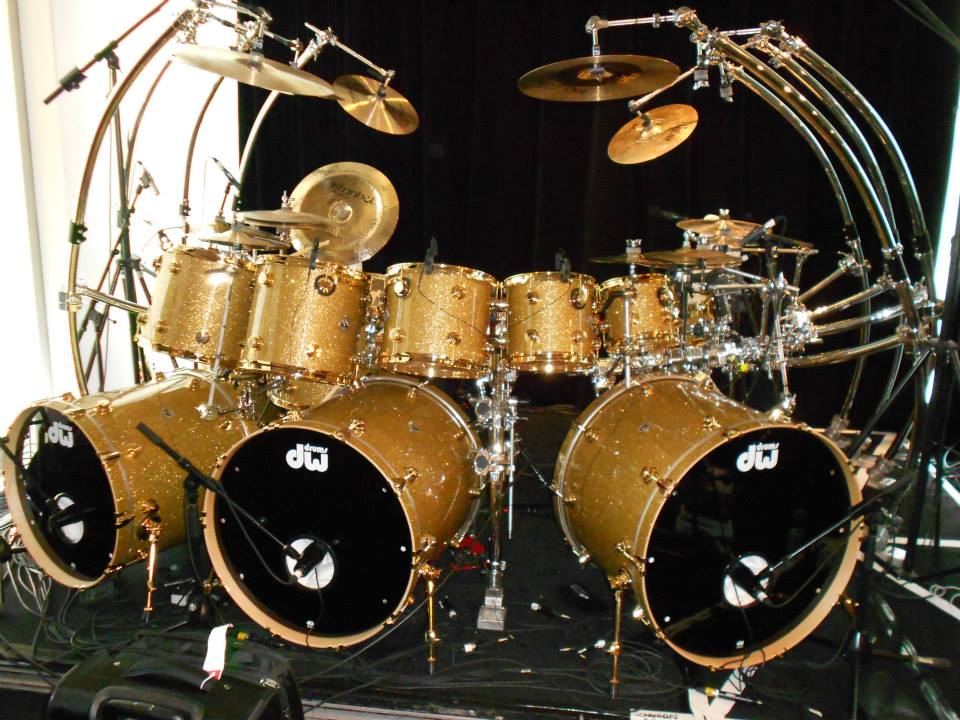 Jonathan Moffett Gold Drum Kit